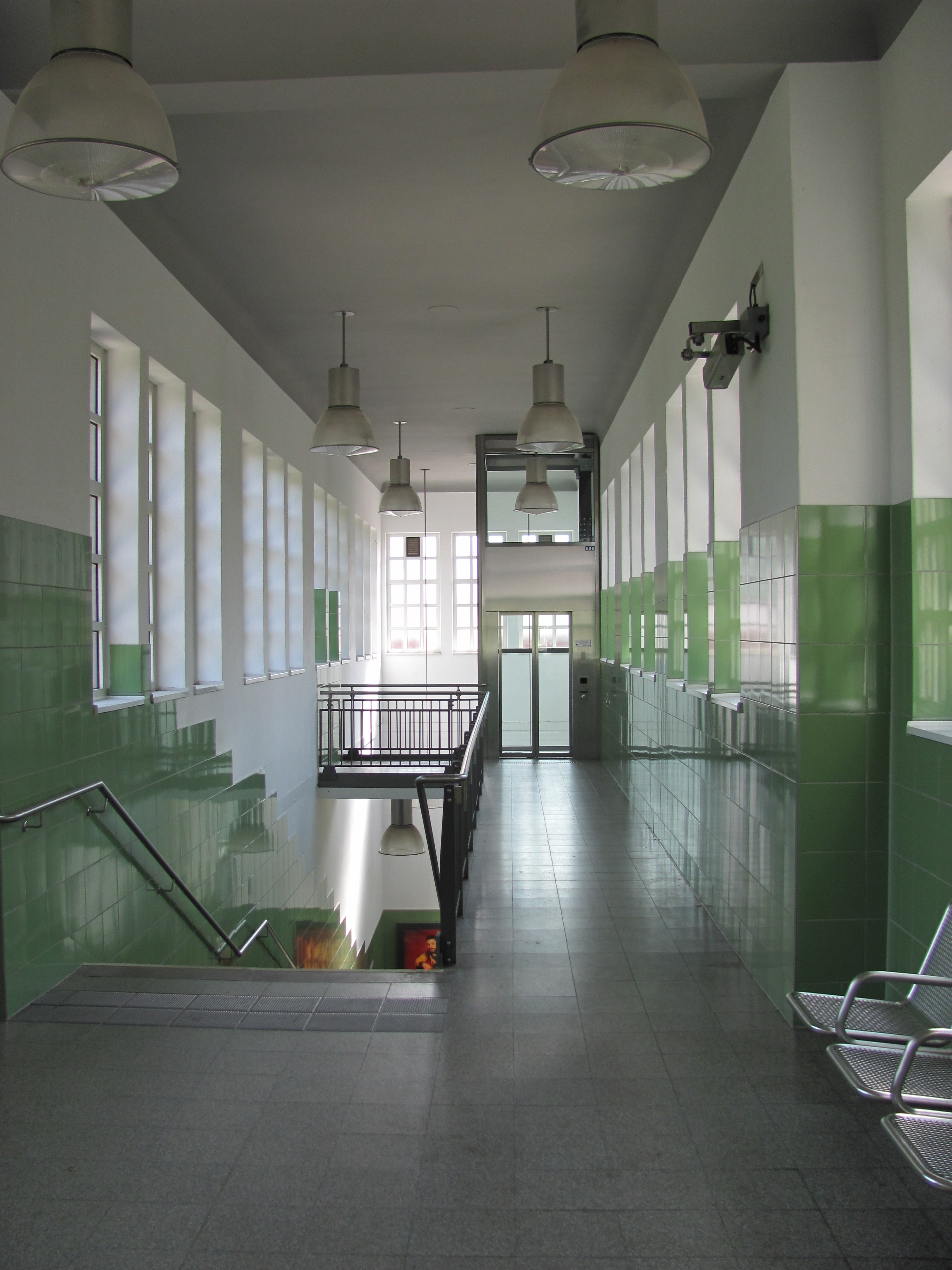 U-Bahn station Großhansdorf, Germany